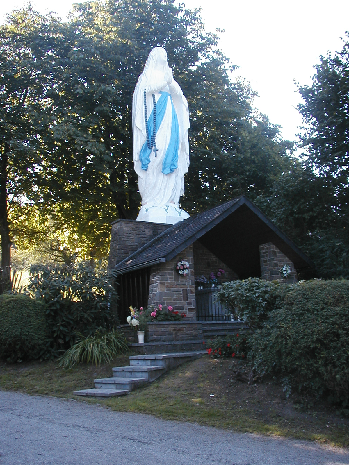 Werpin, Belgium, La Vierge Maria statue